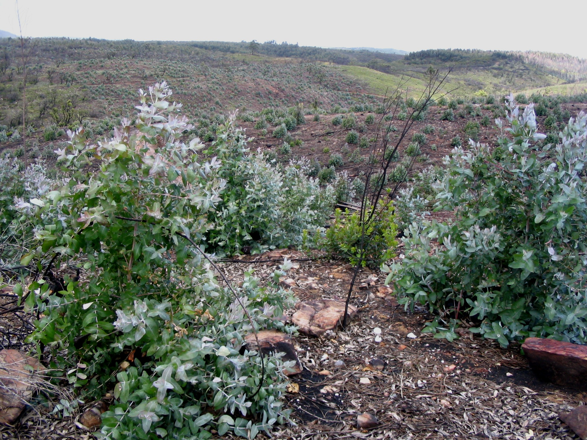 Eucalyptus globulus in Portugal, 2 years after a forest fire. High temperature of resin burning has sterilized the ground. All biodiversity has disappeared